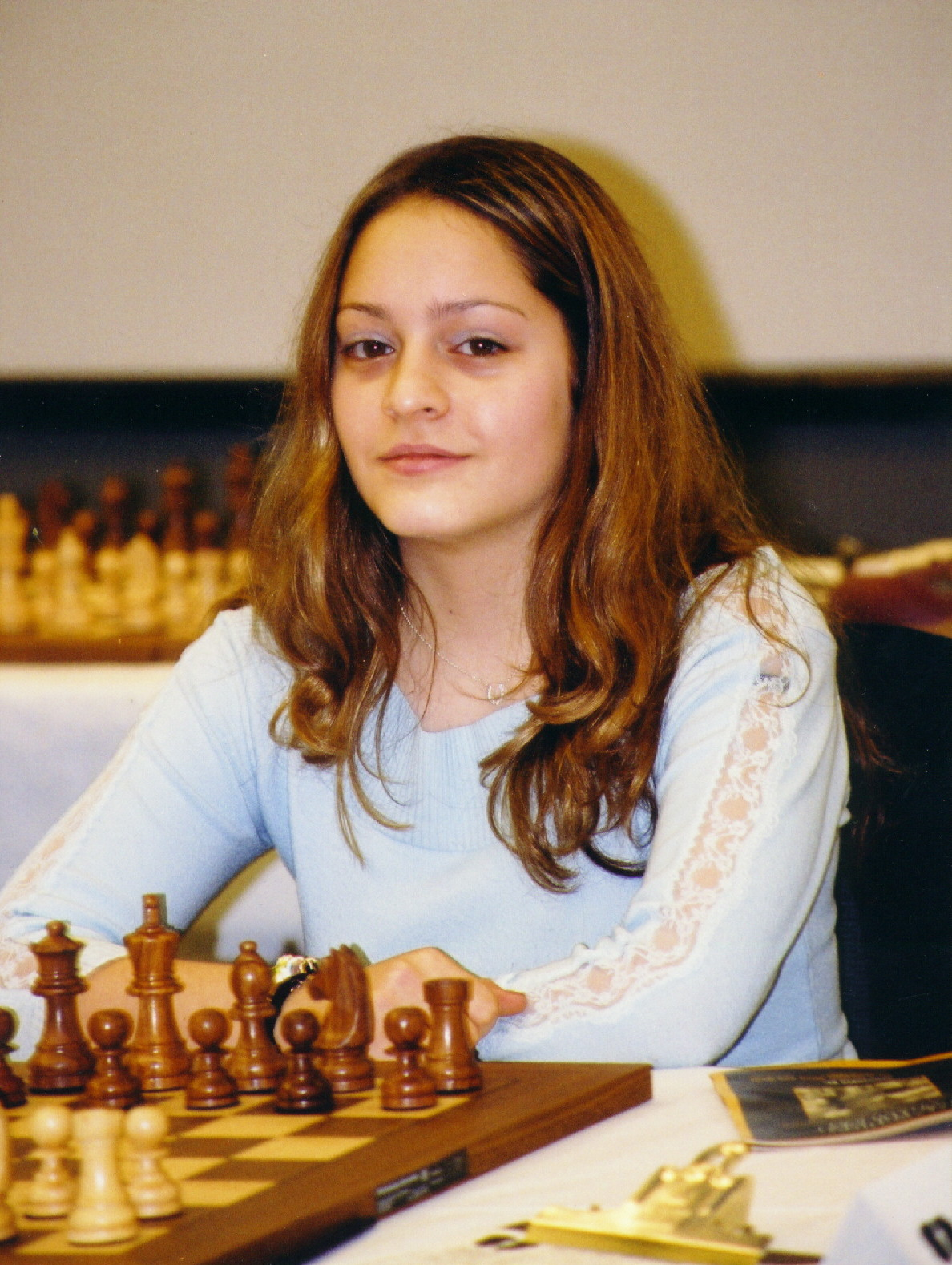 Laura Ross is shown here just prior to the start of the 2003 U.S. Chess Championships in Seattle, Washington.